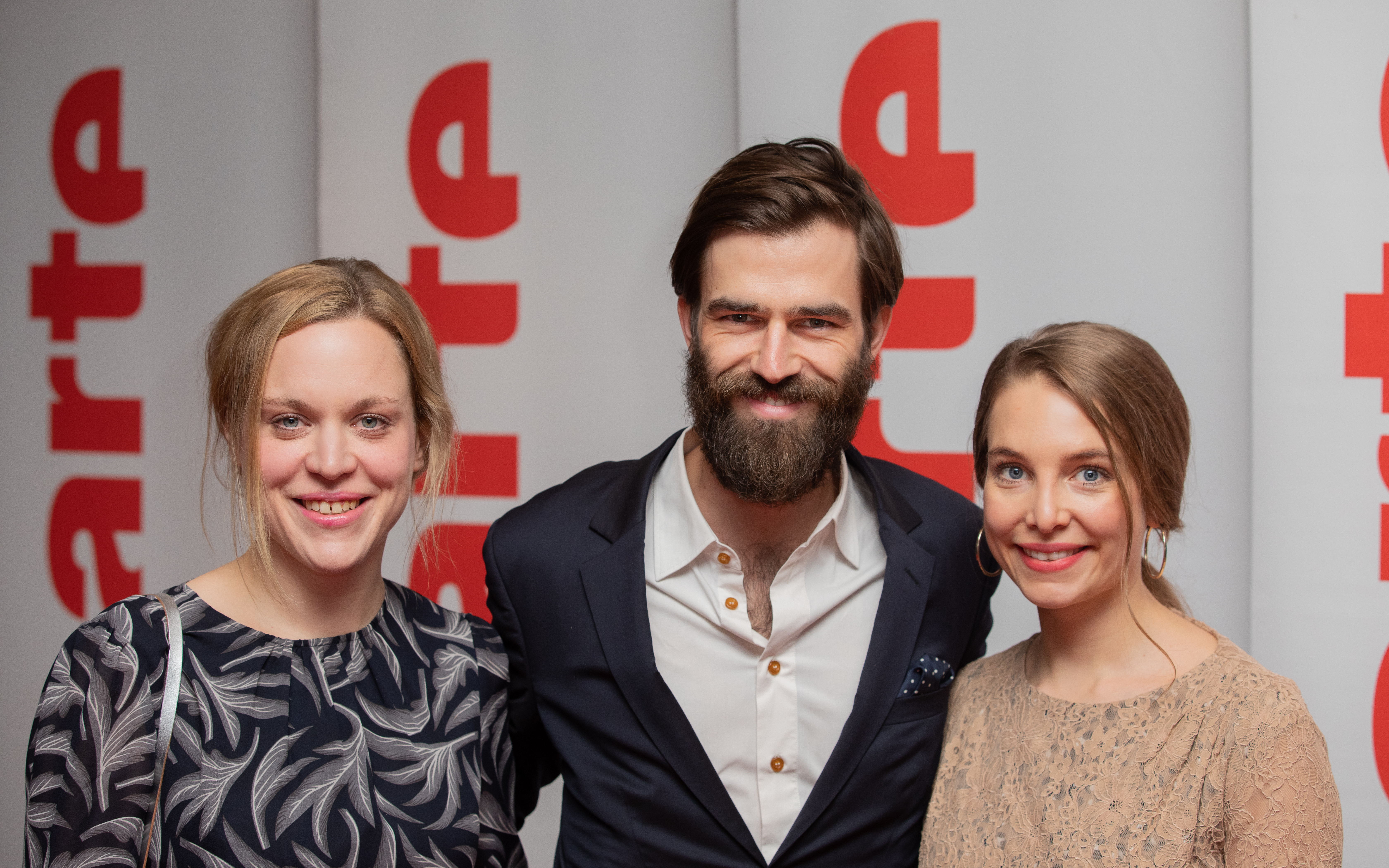 Anne Haug, Moritz Vierboom and Sina Martens at the arte reception of the 2019 Berlin Film Festival